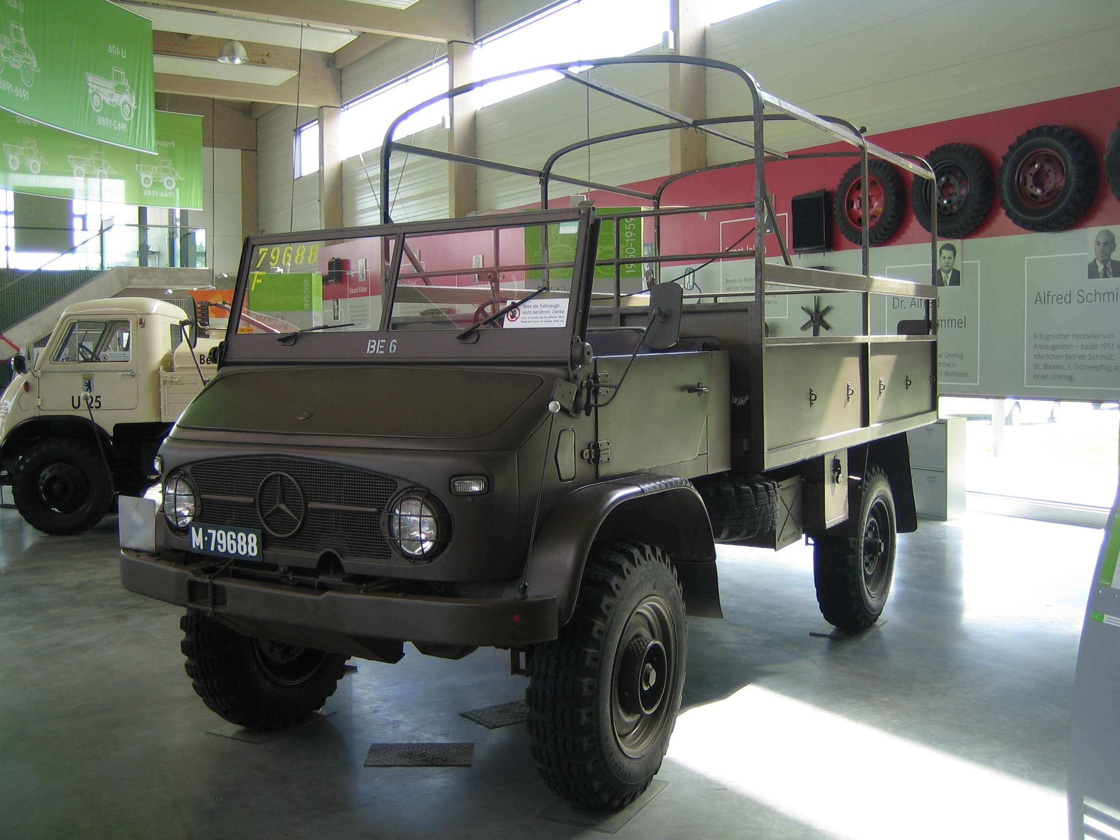 Unimog 404.1 (Swiss version) at the Unimog museum of Gaggenau, Germany.